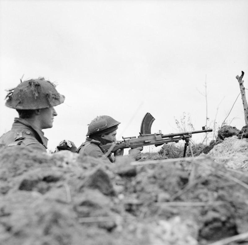 A Bren gunner of the 1st Gordon Highlanders in action near Nieuwkuik, Holland, 6 November 1944. A Bren gunner of the 1st Gordon Highlanders in action near Nieuwkuik, 6 November 1944.